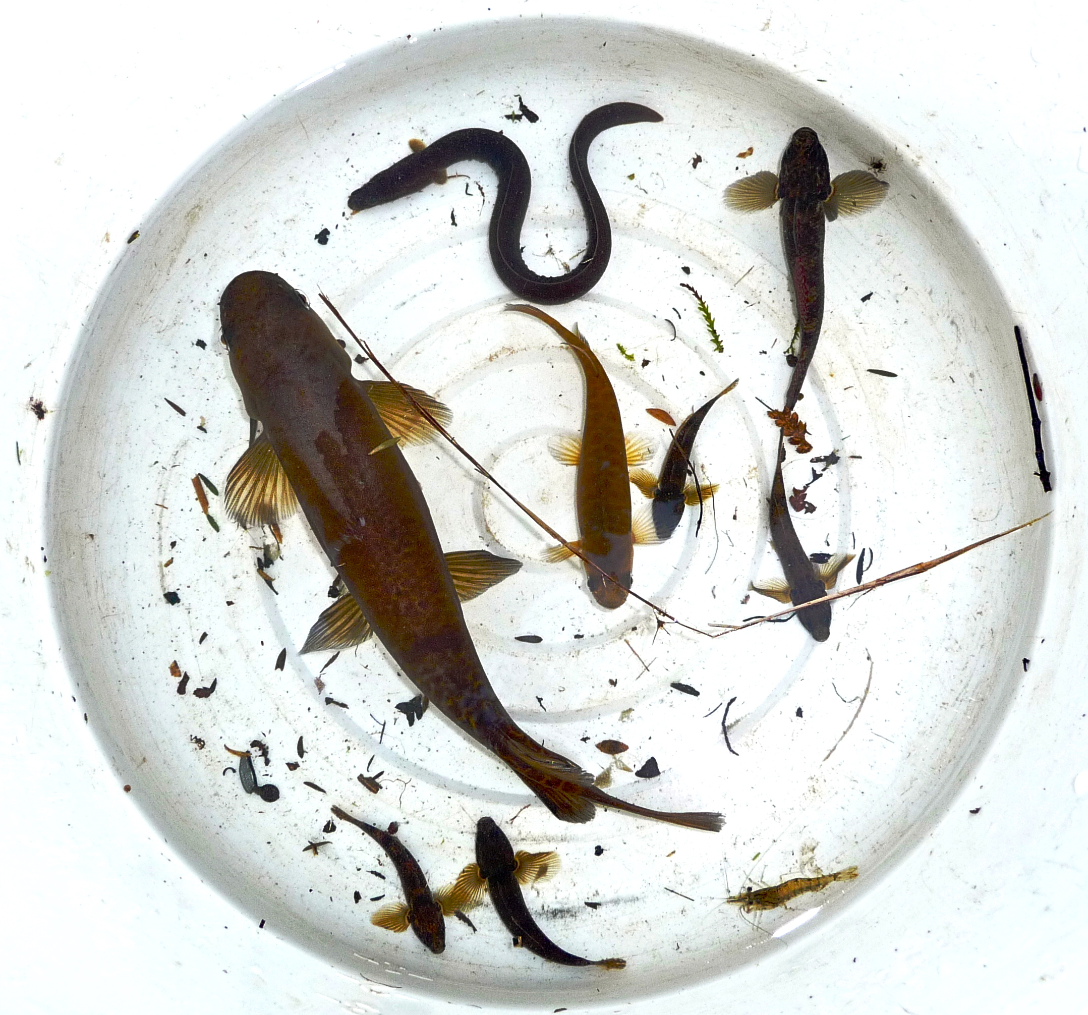 a sample of fish from the stream